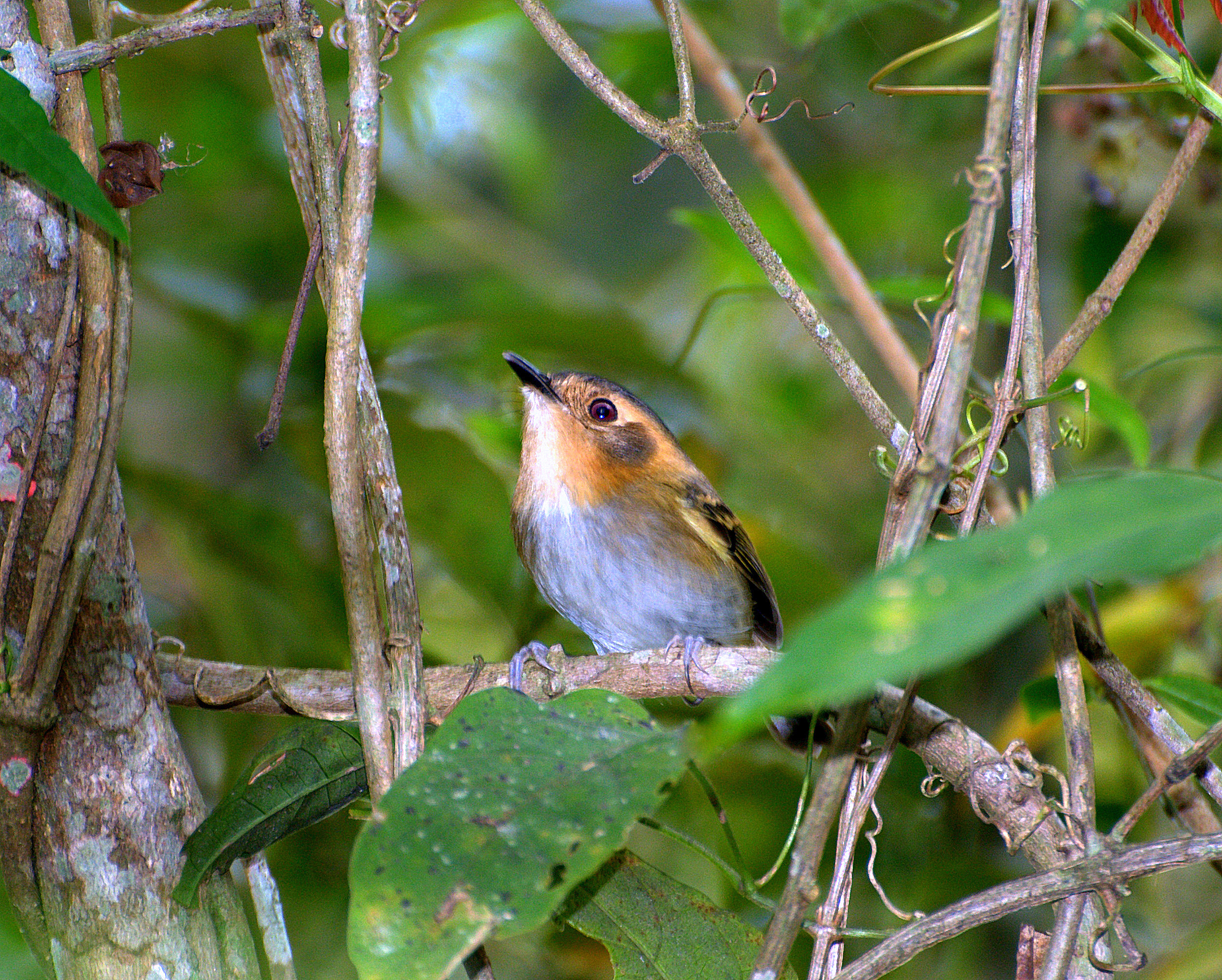 An Ochre-faced Tody-flycatcher in Reserva do Morro Grande, Brazil.